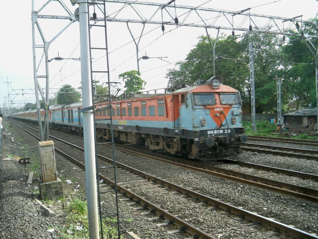 I was on board the Bandra-Nizamuddin Sampark Kranti Express, and that is the Mumbai-New Delhi Rajdhani ramming past us just before Borivili.